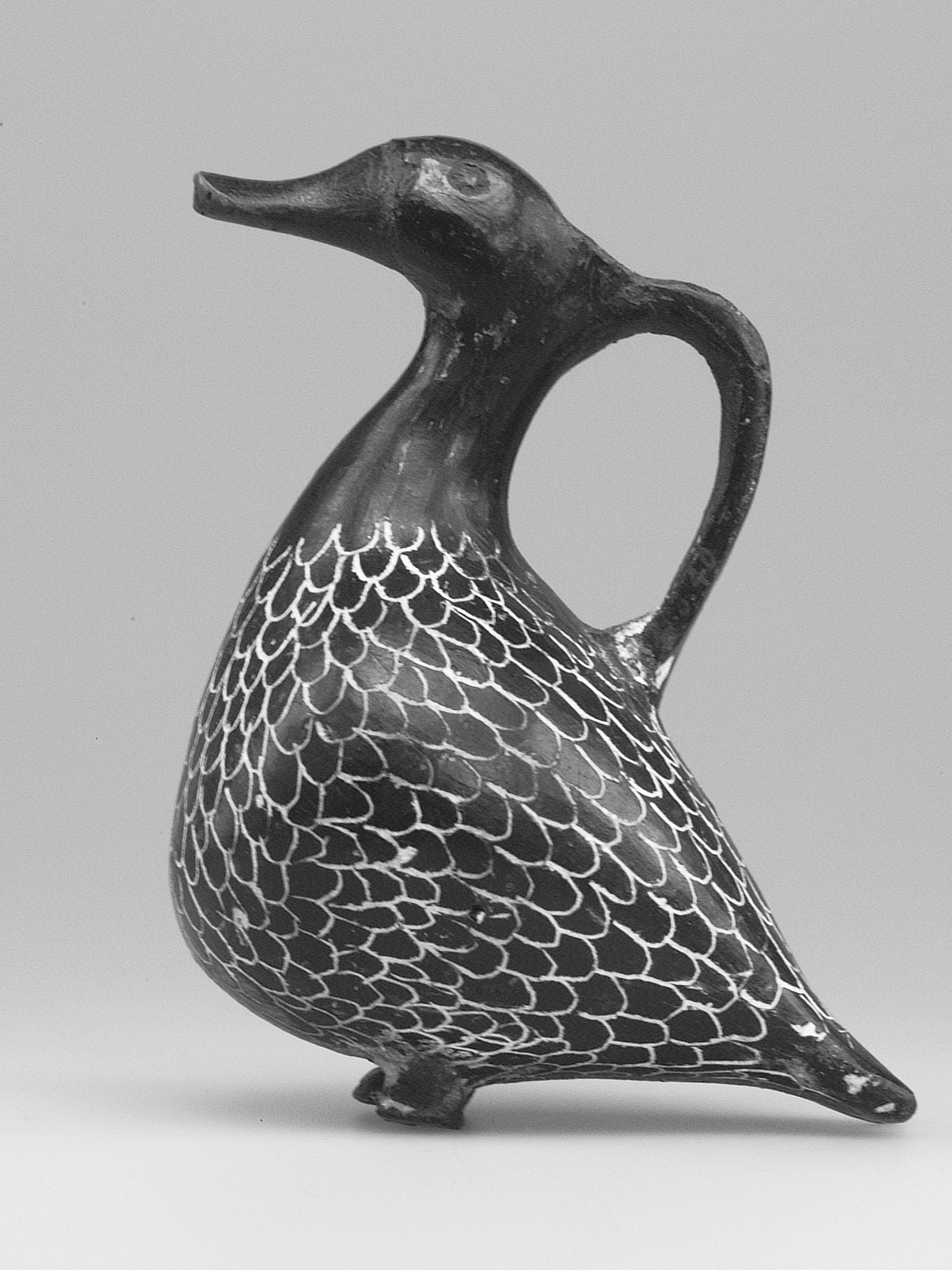 Pitcher, Yahudiya ware, duck